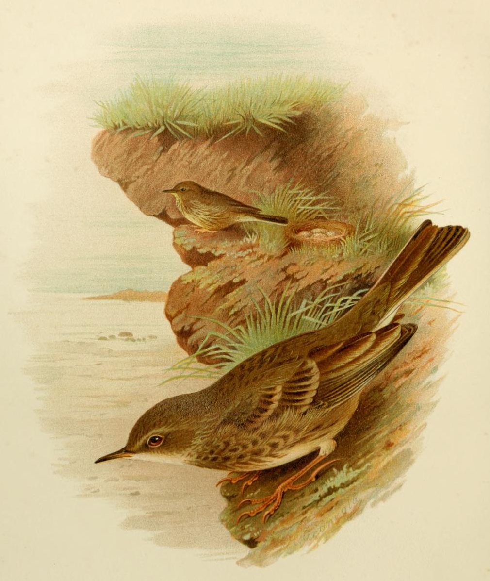 An illustration of Rock Pipits by Henrik Grönvold